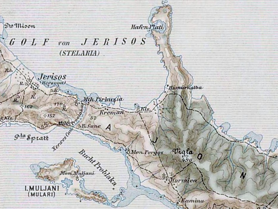 3rd Military Mapping Survey of Austria-Hungary - Athos